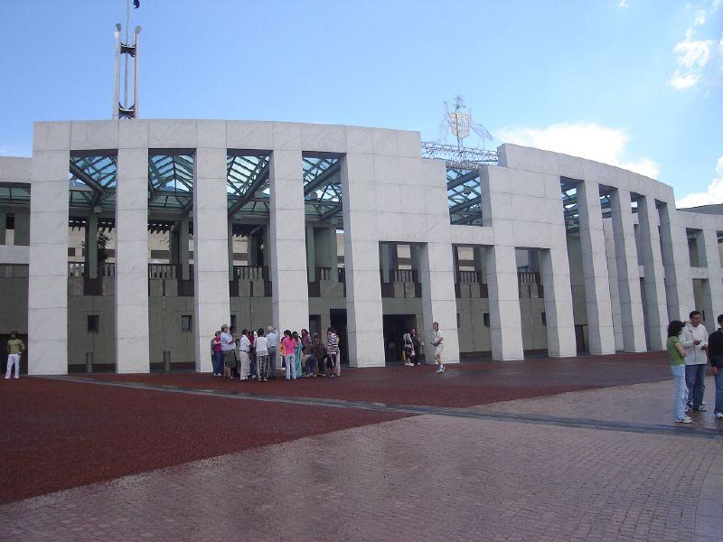 Canberra Parliament House, ACT - Australia Copyright: Australia Photos - Images may be used providing credit is given to .